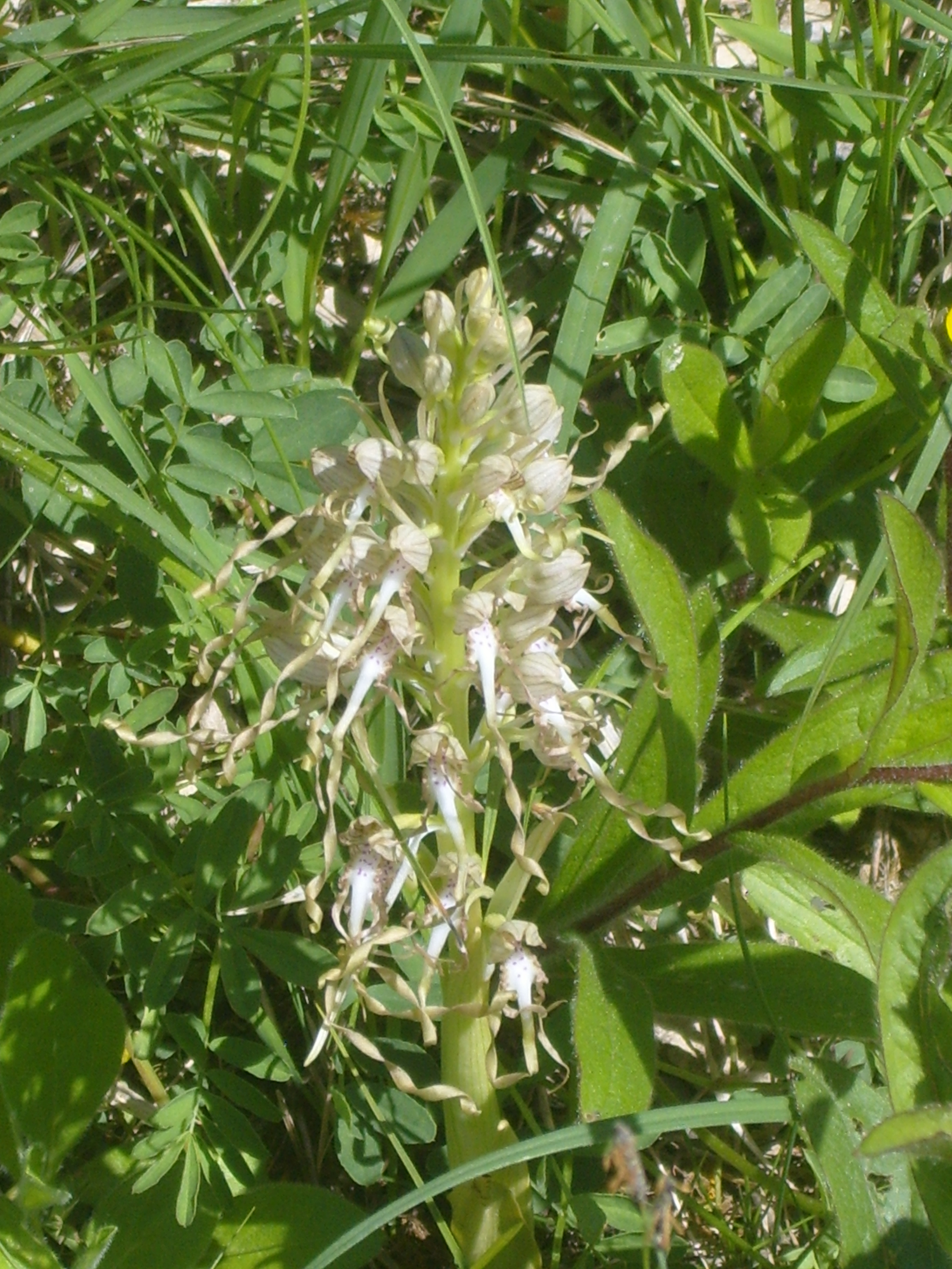 Pale individual of Himantoglossum hircinum in Germany in 2008